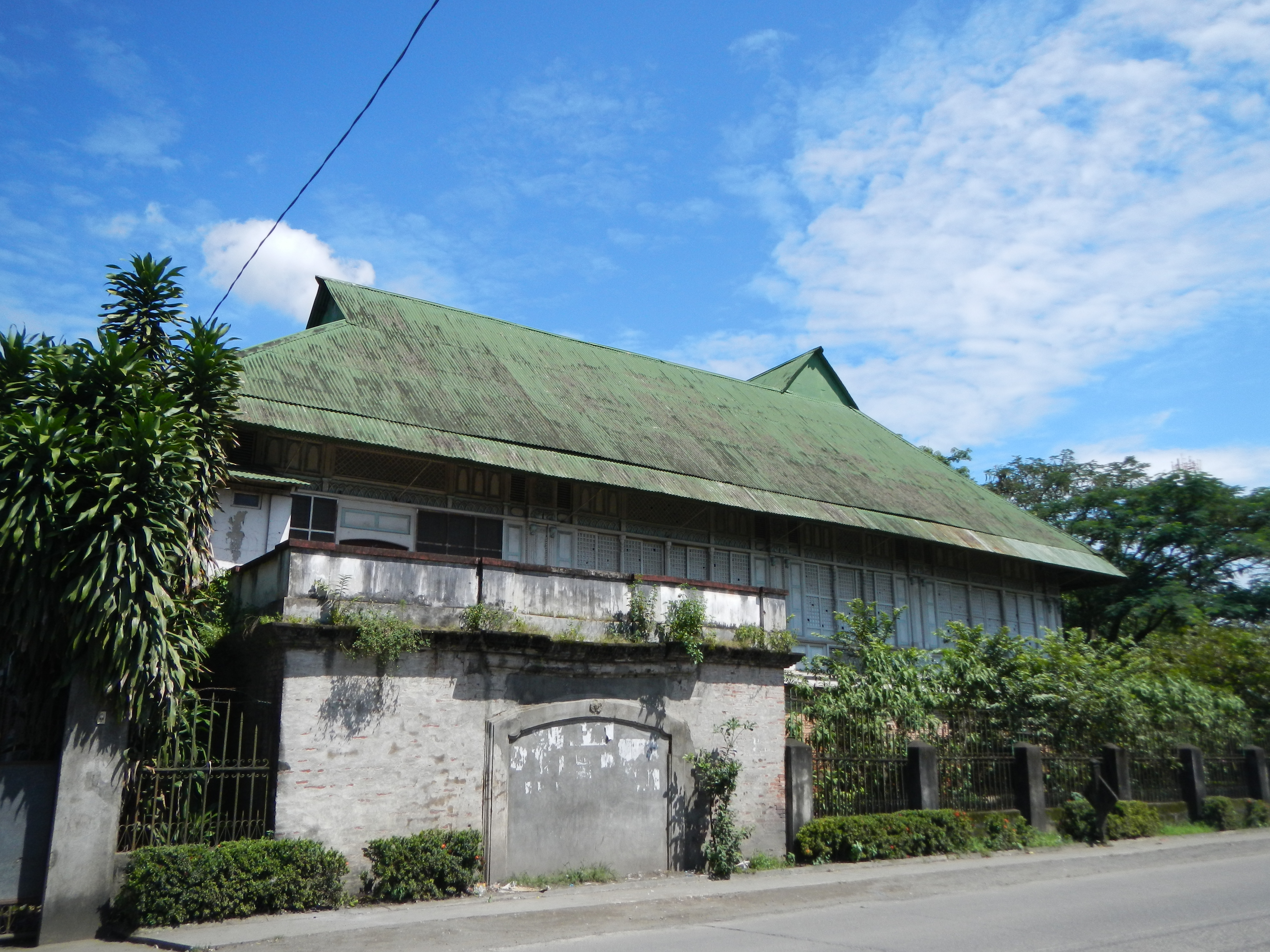 Crispulo Sideco House[1] San Isidro, Nueva Ecija The Sideco house was built in the 19th century by Crispulo Sideco. It typifies the houses of the Floral period in the Philippine colonial architecture, where ogee arches, filigreed wooden panels, grilles wrought in curlicues and floral and foliate designs abound in the house as basic structural elements or as ornaments. It had been the seat of General Emilio Aguinaldo's First Philippine Republic when he established it as his headquarters in San Isidro during the last part of his odyssey from the American forces. San Isidro, Nueva Ecija[2]